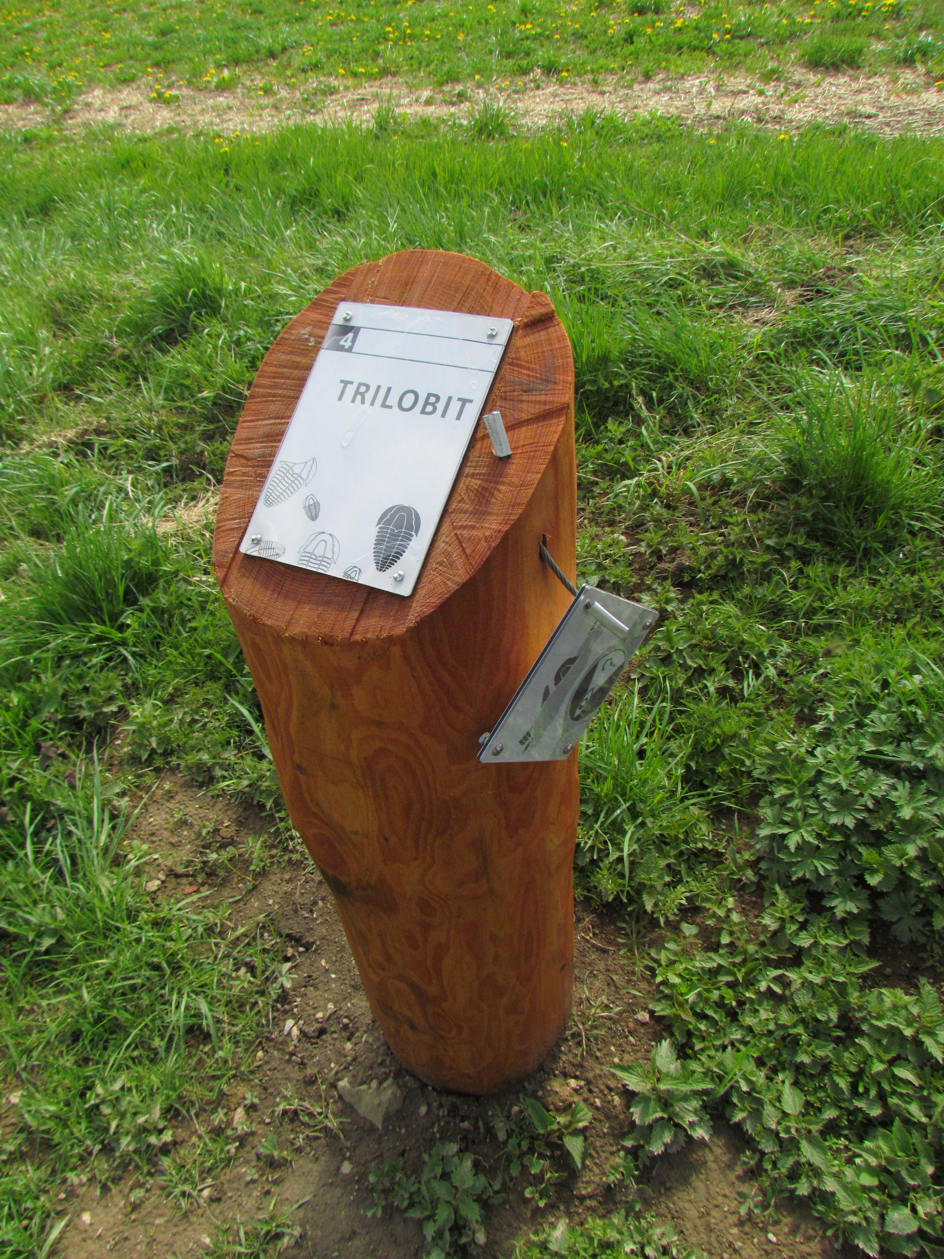 Naučná stezka Po stopách trilobita u obce Skryje nad Berounkou. Jedna ze zastávek naučné stezky